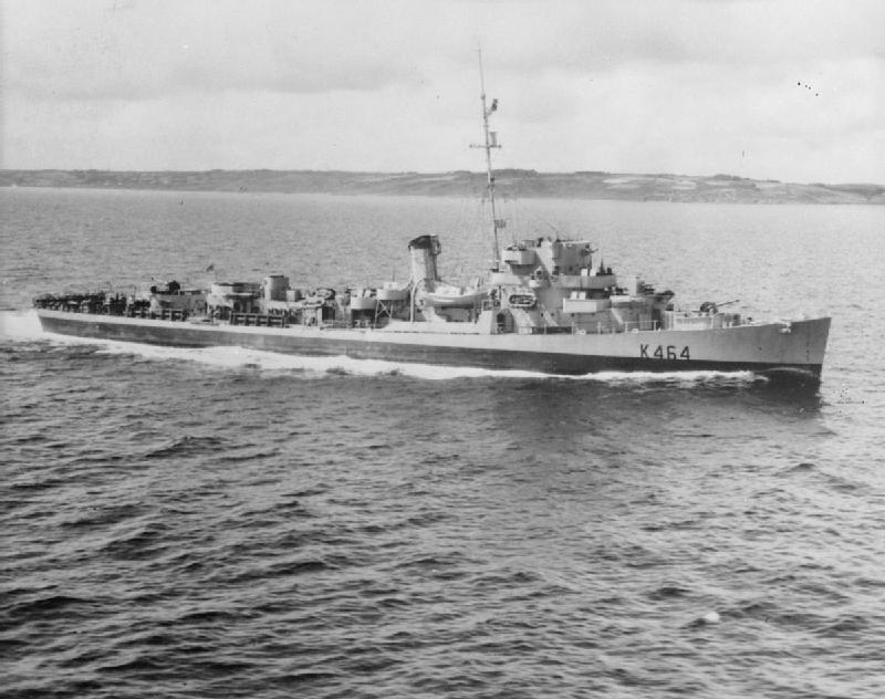 Aerial photograph of HMS BALFOUR underway, coastal waters.